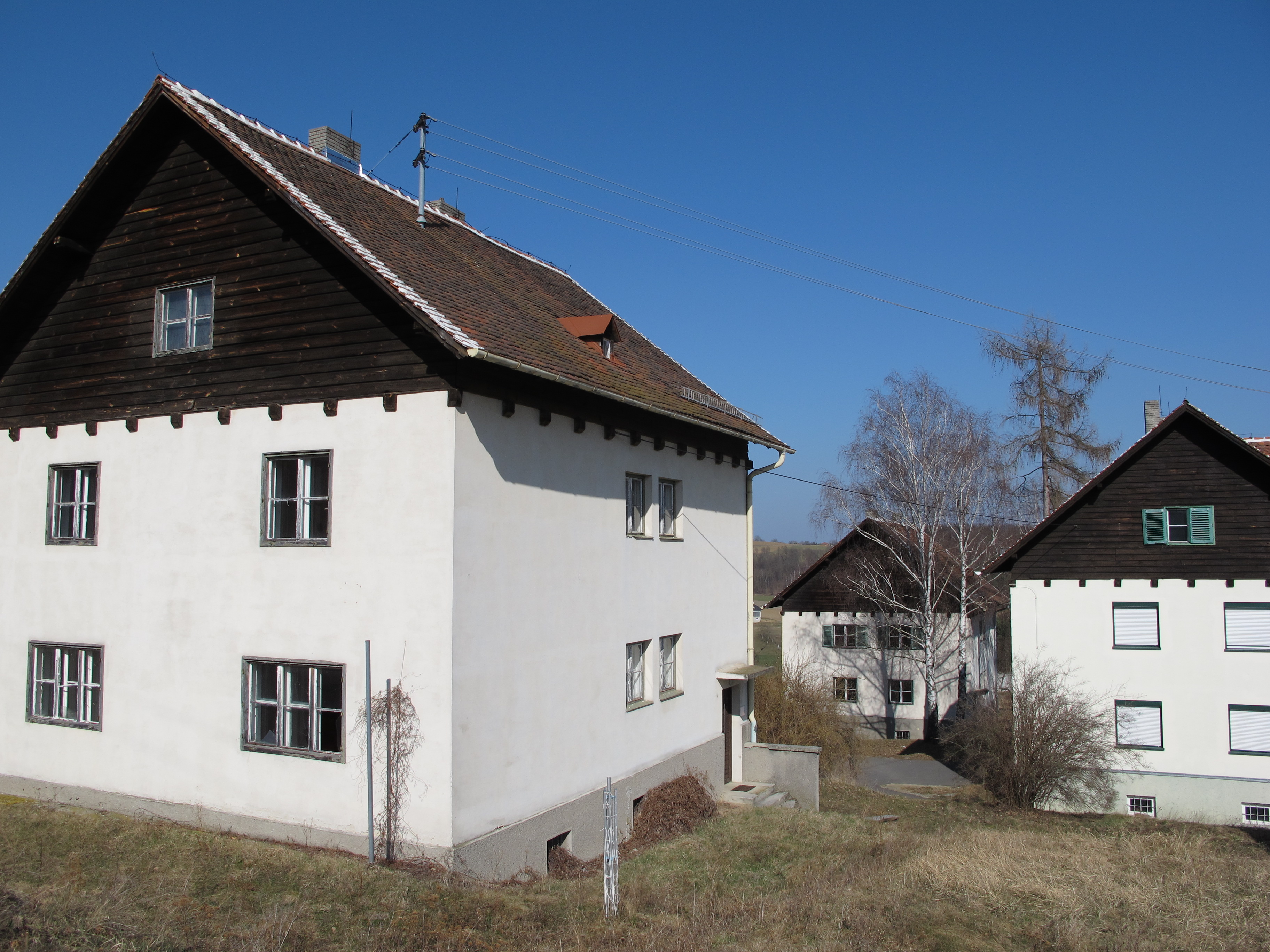 Zollhäuser Inzenhof